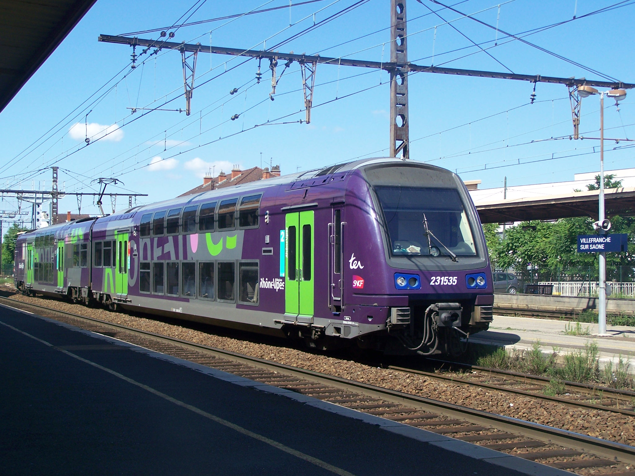 A French regional train is waiting for its departure from Villefranche sur Saône station in Rhône before joining Vienne in Isère.